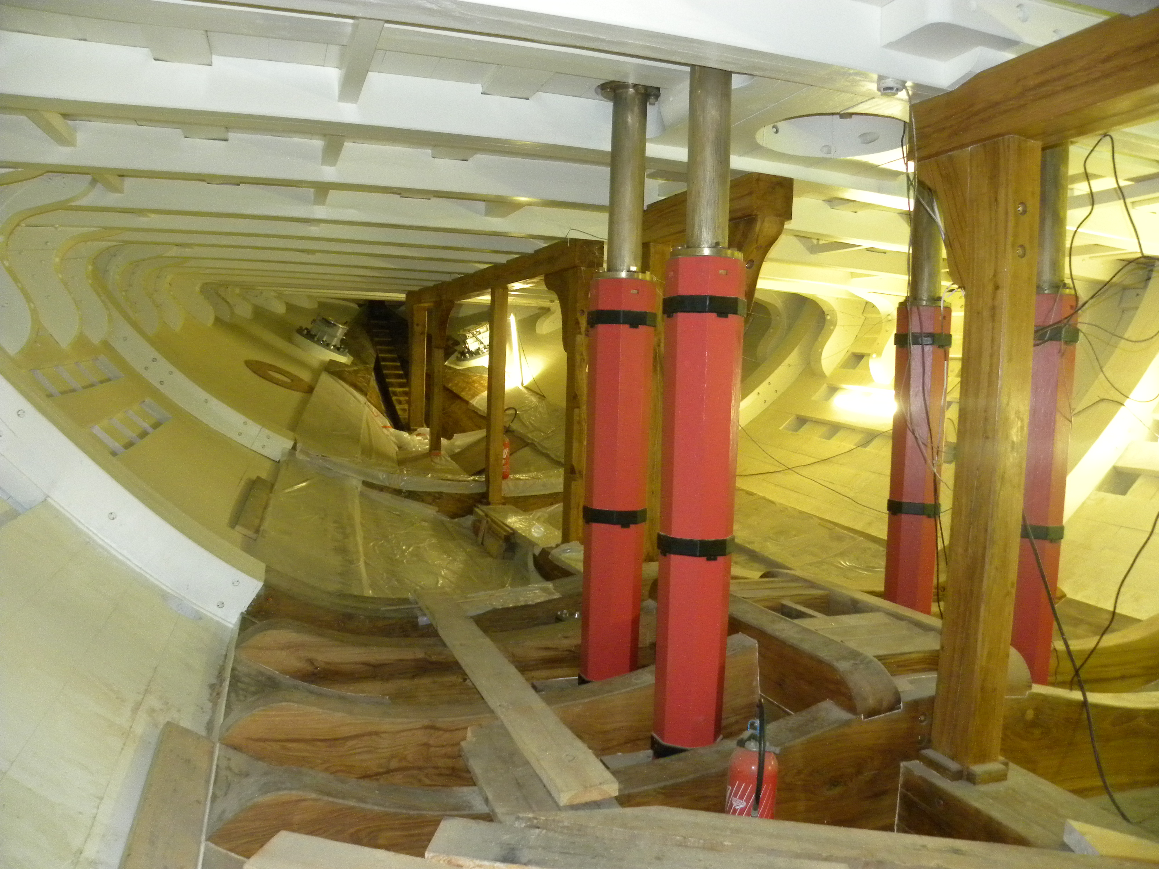 French frigate Hermione (1779)